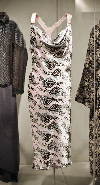 Alexander McQueen dress, 2011